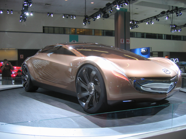 Mazda Nagare. Taken at the 2006 Los Angeles International Auto Show